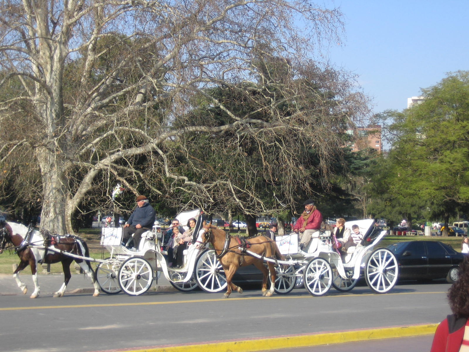 Mateos - Palermo neighborhood - Buenos Aires - Argentina